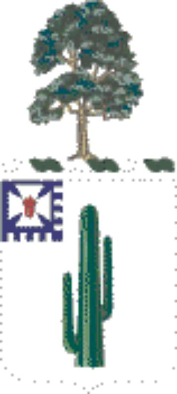 35th Infantry Regiment Coat of Arms approved 9 Apr 1920.